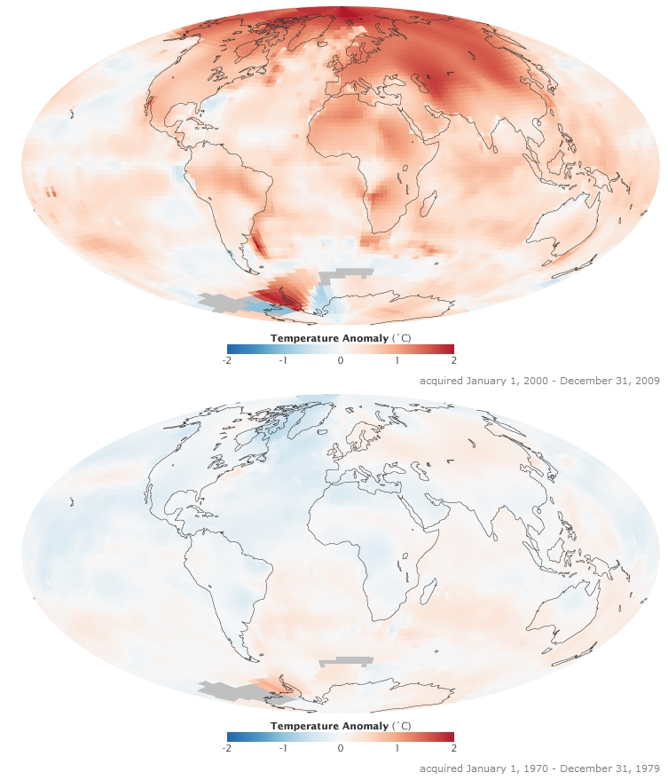 This image shows the difference in average surface temperatures from 1970-79 (bottom) to 2000-09 (top) due to global warming. Both maps show temperature anomalies, not absolute temperature. Anomalies refer to the average temperature as of 1951-1980.